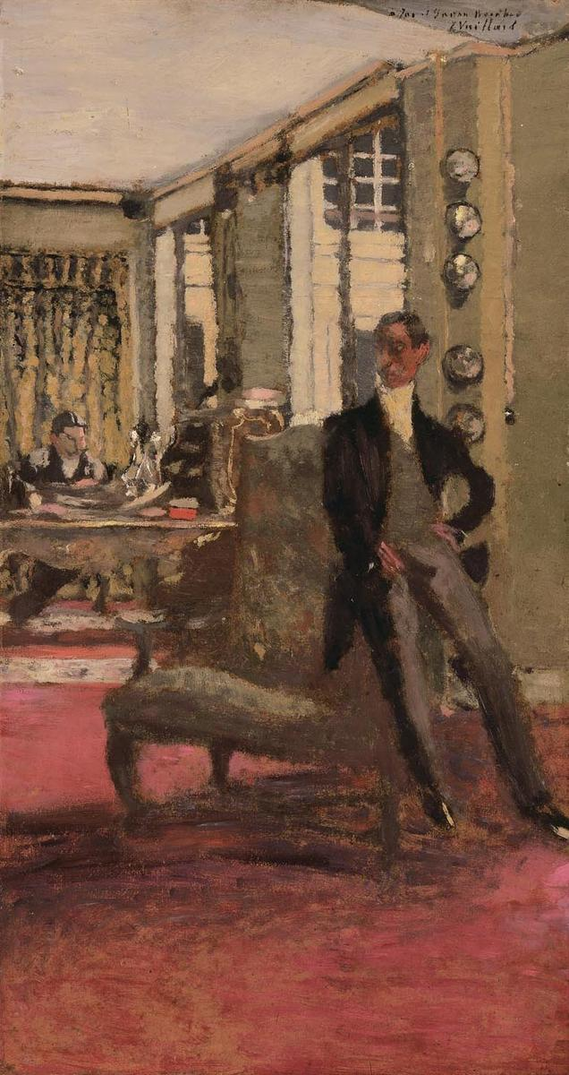 The Art Dealers (The Bernheim-Jeune Brothers) by Édouard Vuillard, 1912, oil on paper mounted on panel, 23 3/8 x 12 15/16 in (59.4 x 32.9 cm), McNay Art Museum